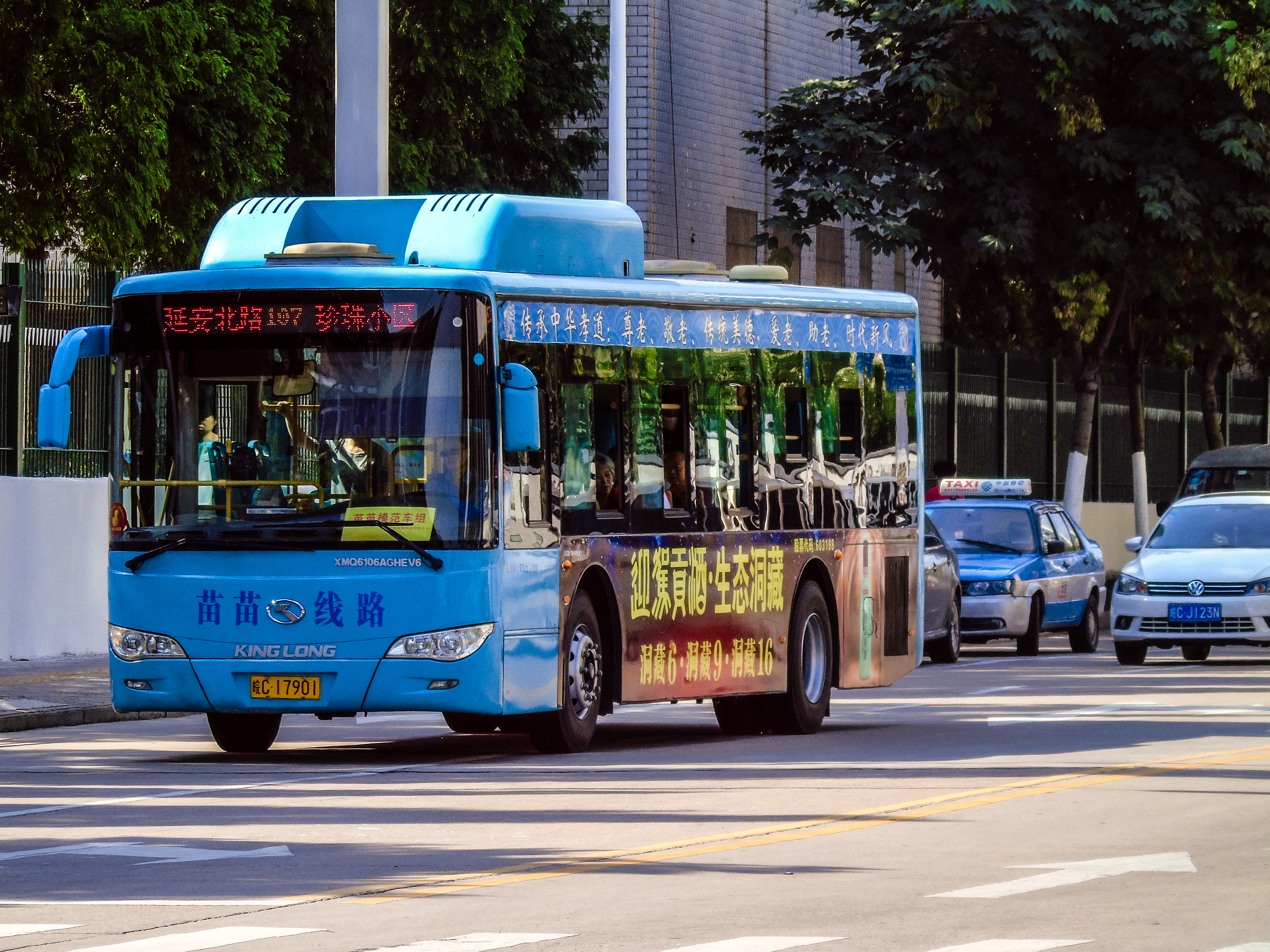 Bengbu Bus No.107 Old 3